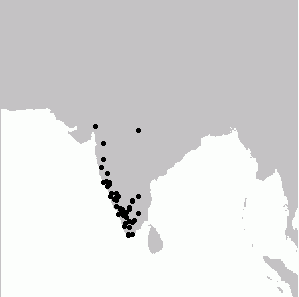 Distribution map of Malabar Whistling Thrush